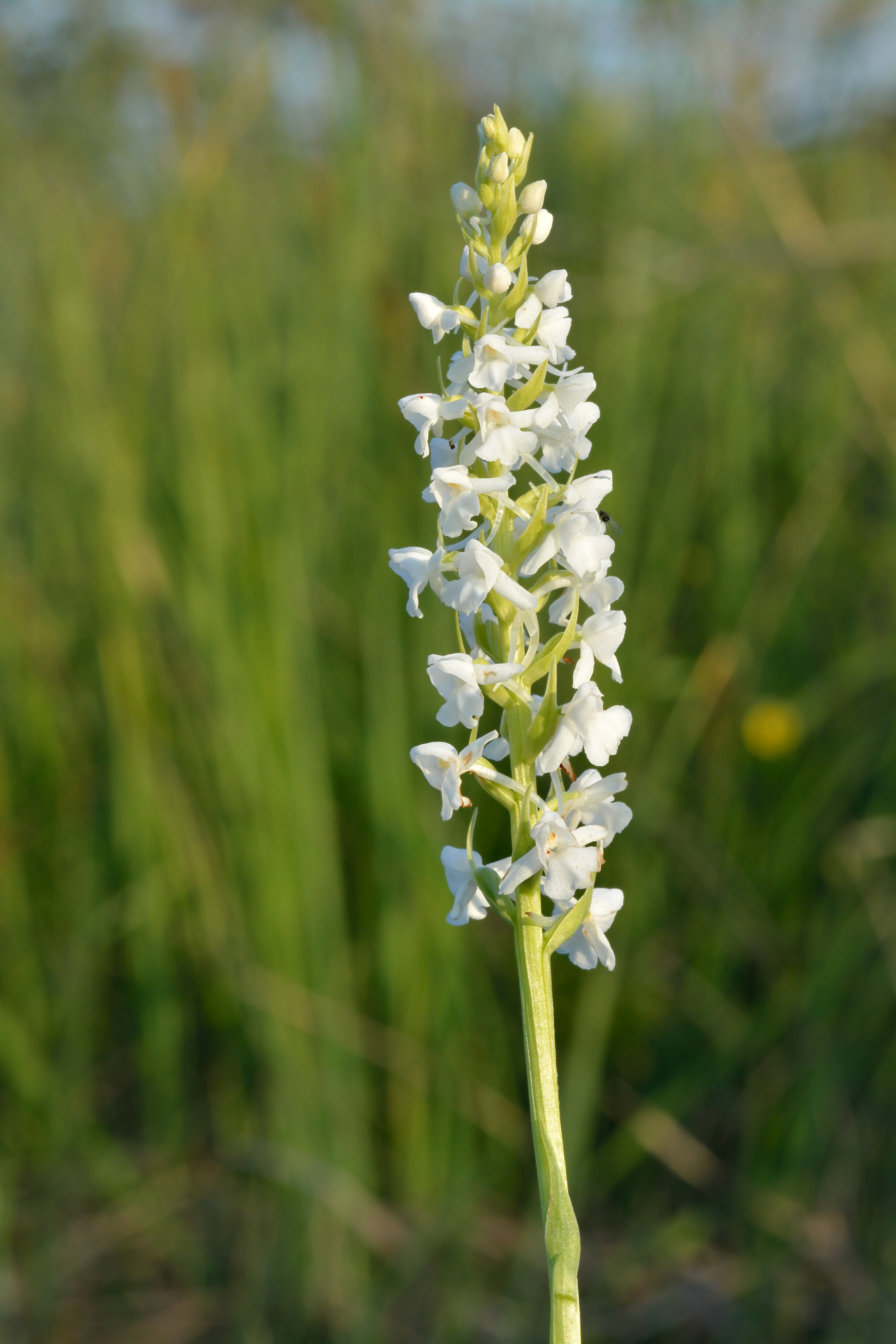 The white fragrant orchid (Gymnadenia conopsea var. alba). Niitvälja bog, Northwestern Estonia.